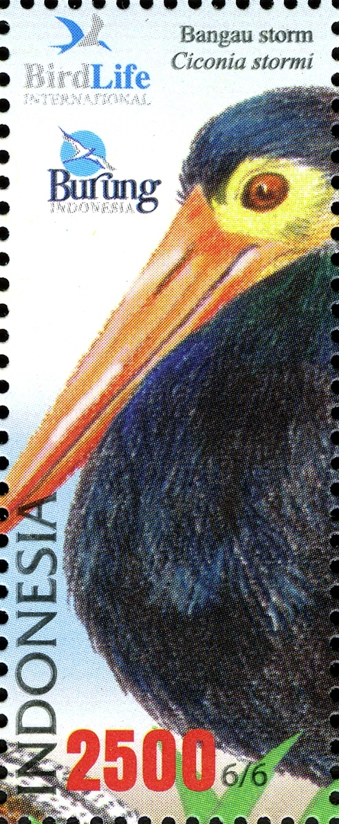 Stamps of Indonesia